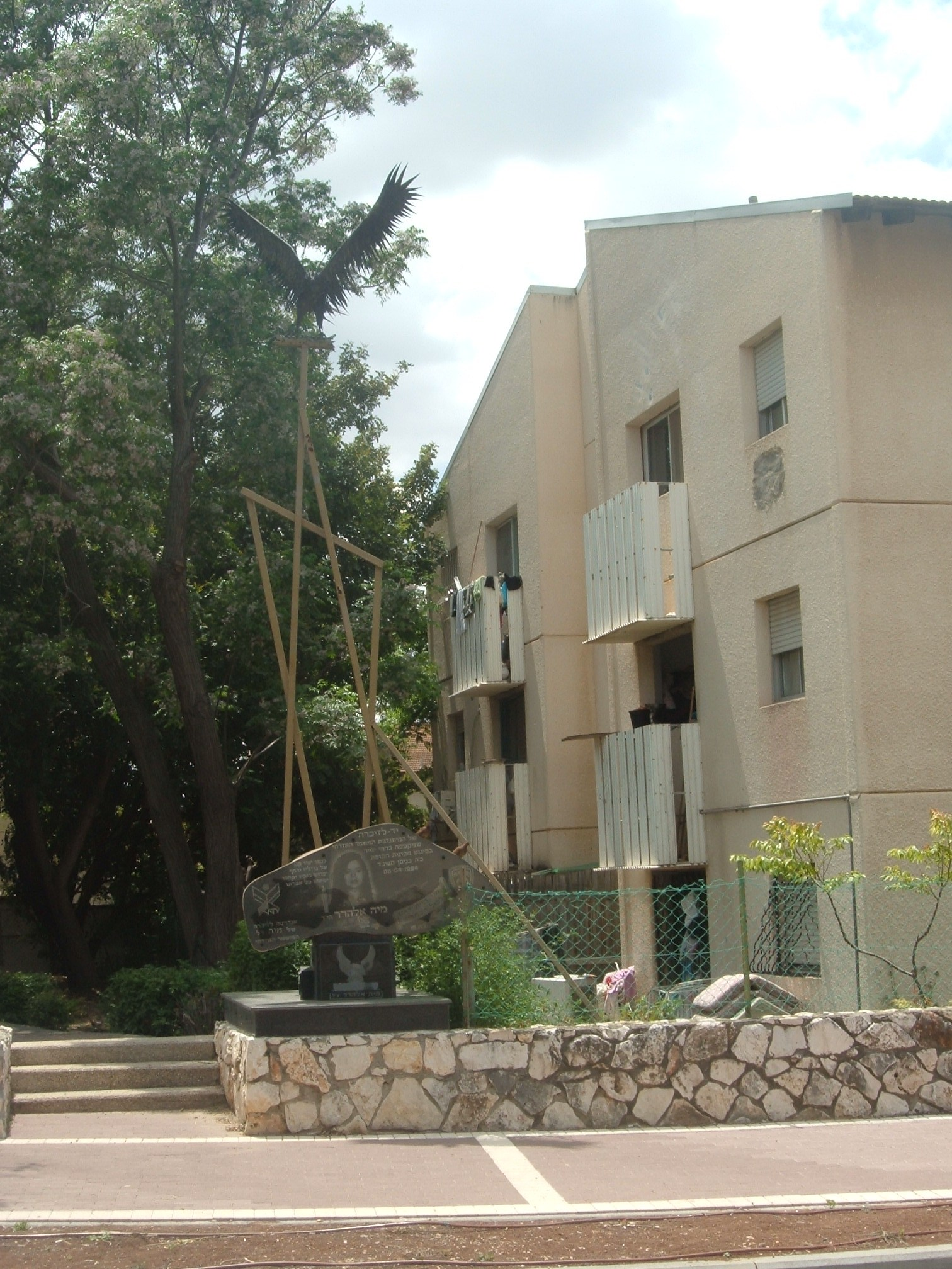 Monument in memeory of civil guard volunteer Maya Elharar murdered in a suicide car bombing in Afila on April 1994, in front of the civil guard house in Afula Illit אנדרטה לזכרה של מתנדבת המשמר האזרחי מאיה אלהרר שנרצחה בפיגוע מכונית התופת בעפולה באפריל 1994, המוצבת מול בית המשמר האזרחי בעפולה עילית